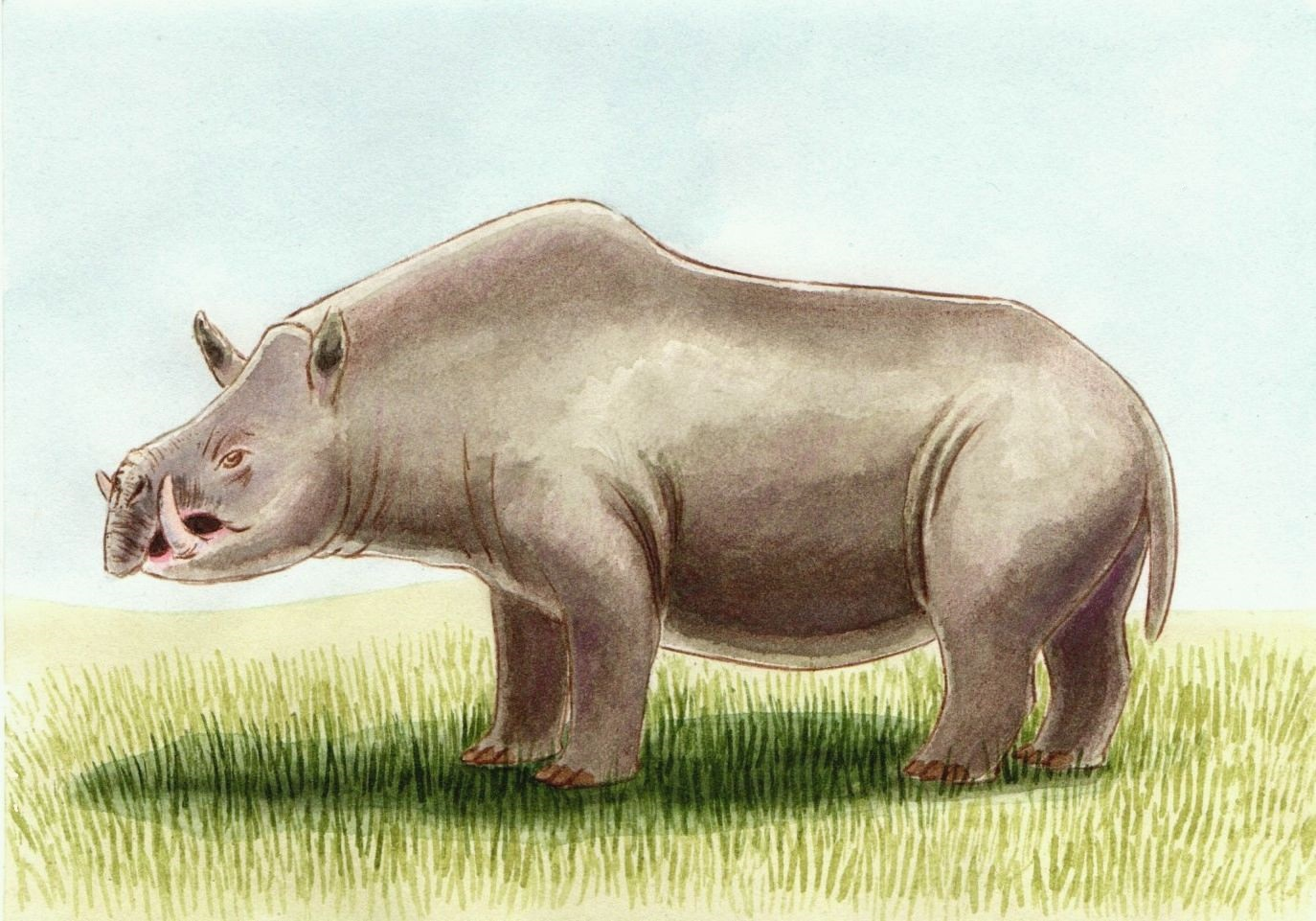 A recreation of the extinct mammal Chilotherium